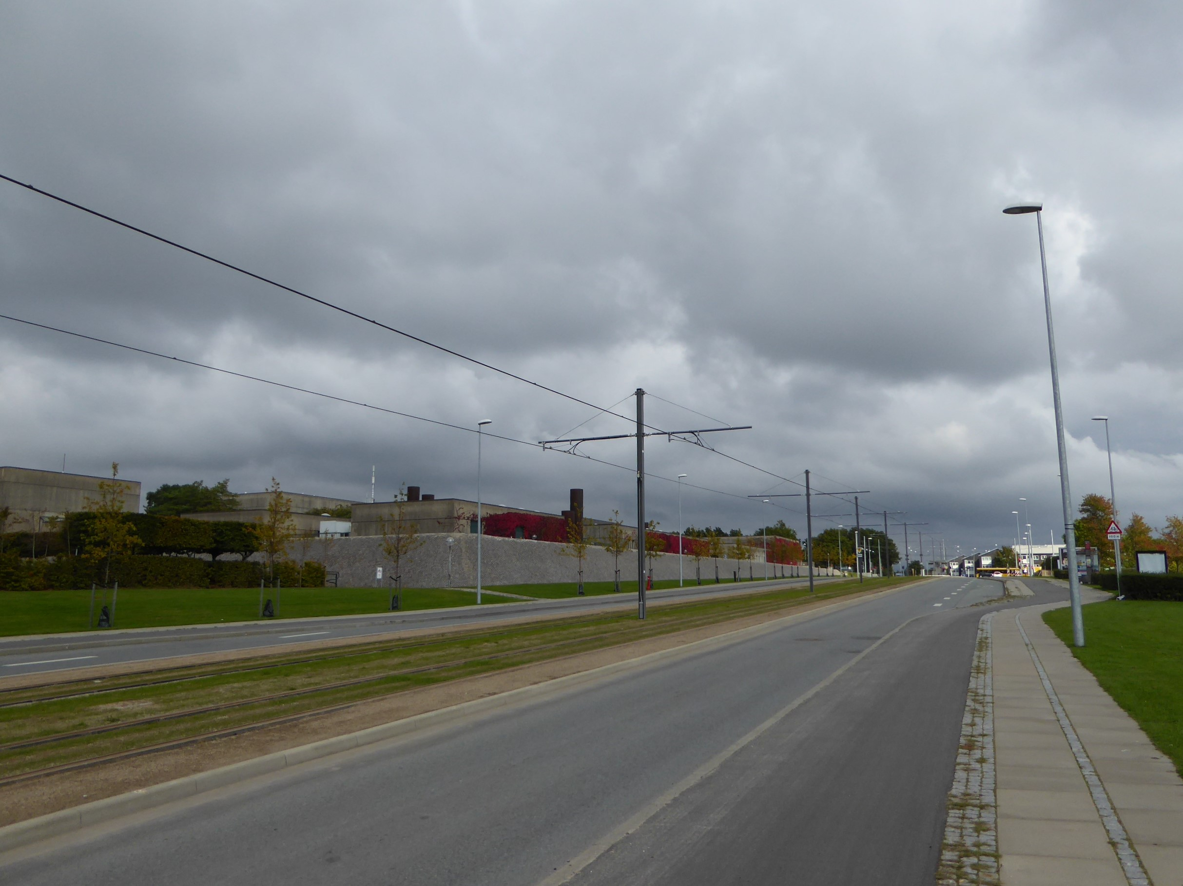 Tram tracks of Aarhus Letbane on Nehrus Allé in Aarhus in Denmark.